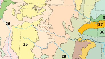 Level III ecoregions in Oklahoma, as defined by the U.S. Environmental Protection Agency